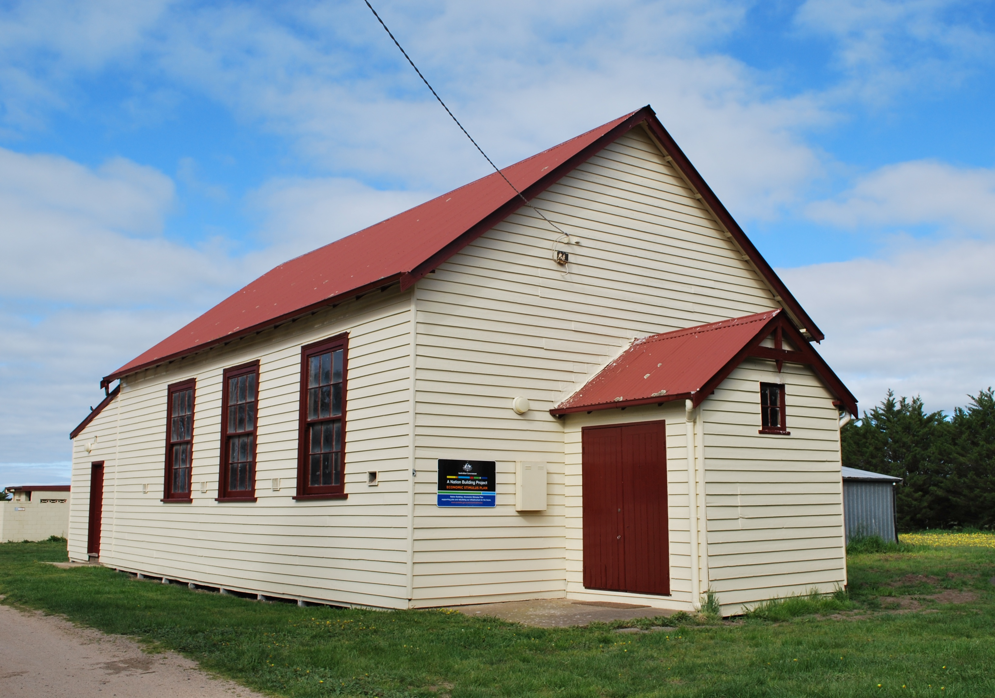 The repainted Bolinda Hall at Bolinda, Victoria. Note the "stimulus package" signage on the left front of the building.